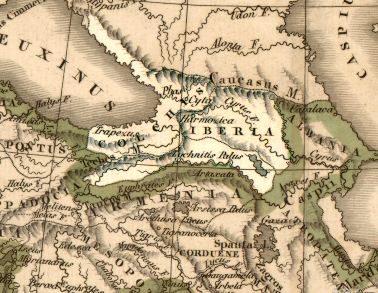 Colchis and Iberia, IV-III centuries B.C. (Alexandri magni imperium et expeditiones, Félix Delamarche, 1833